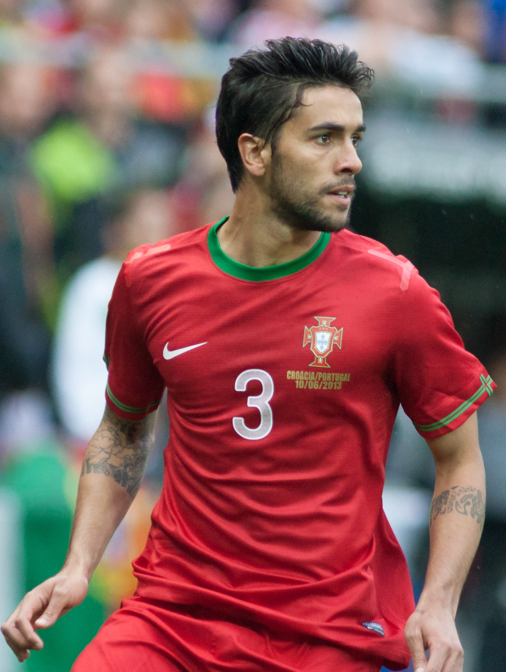 Sílvio Manuel Pereira - Croatia vs. Portugal, 10th June 2013